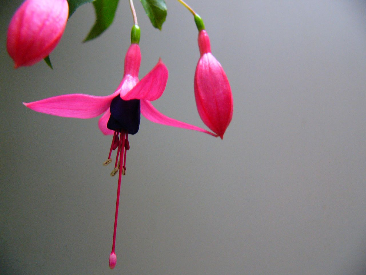 Fuchsia (Onagraceae)